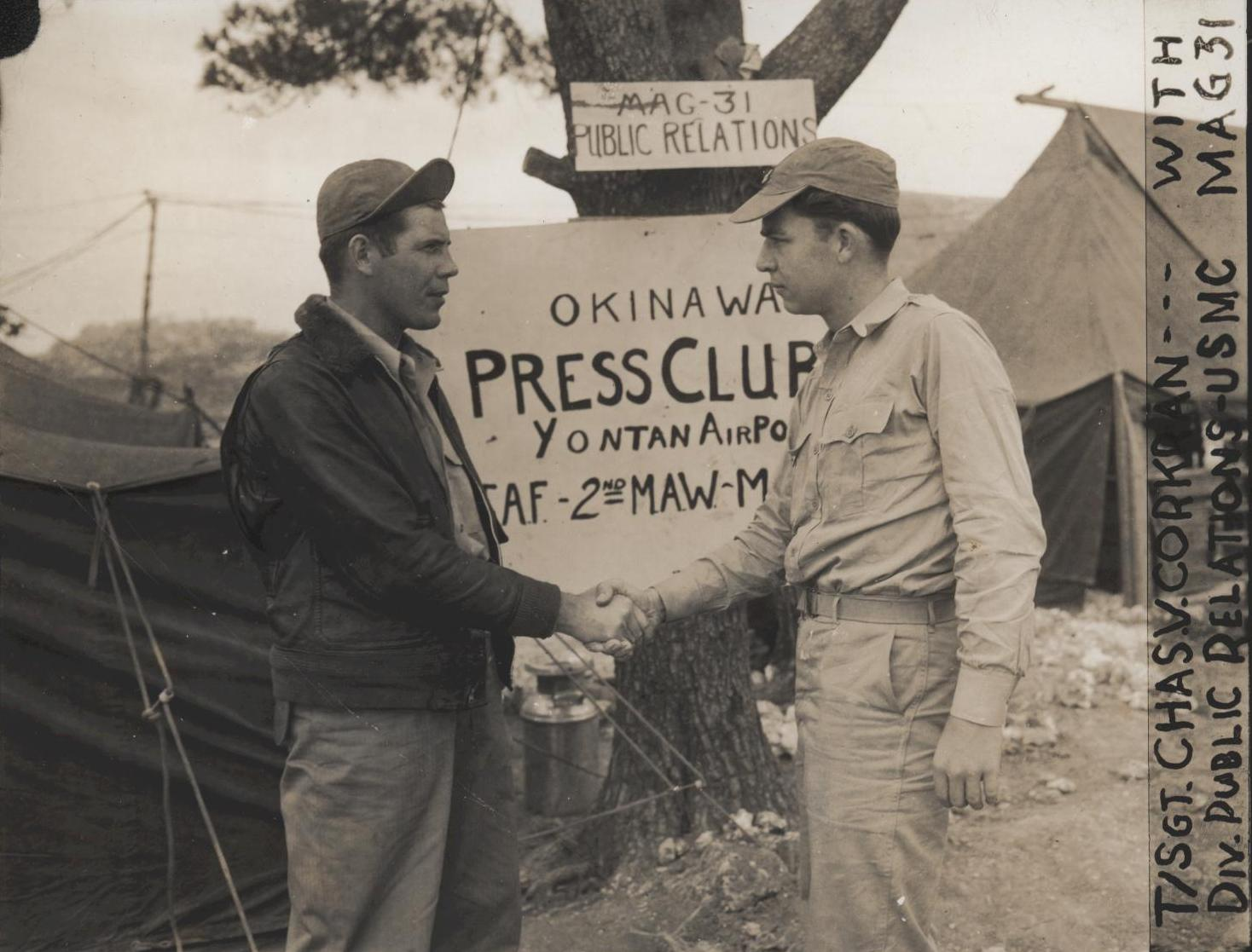 "Yontan Airfield, Okinawa, April 23, 1945: Marine First Lieutenant Herbert Groff, a night fighter pilot in Marine Aircraft Group 31, receives congratulations from CBS war correspondent Tim Leimert for shooting down a Jap twin-engine bomber while on midnight combat patrol from Yontan Airfield on Okinawa. Groff, 24 of Summerfield, Mo., is a former country school teacher. Leimert, covering the war in the Pacific for Columbia network stations, made the first B-29 raid over Tokyo, He is from Beverly Hills, Calif. The picture was made in front of the Okinawa Press Club which is operated by public relations personnel of Marine Aircraft Group 31 commanded by Colonel John C. Mull, of Prescott, Ark." From the Claude R. Canup Collection (COLL/5361), Marine Corps Archives & Special Collections OFFICIAL USMC PHOTOGRAPH